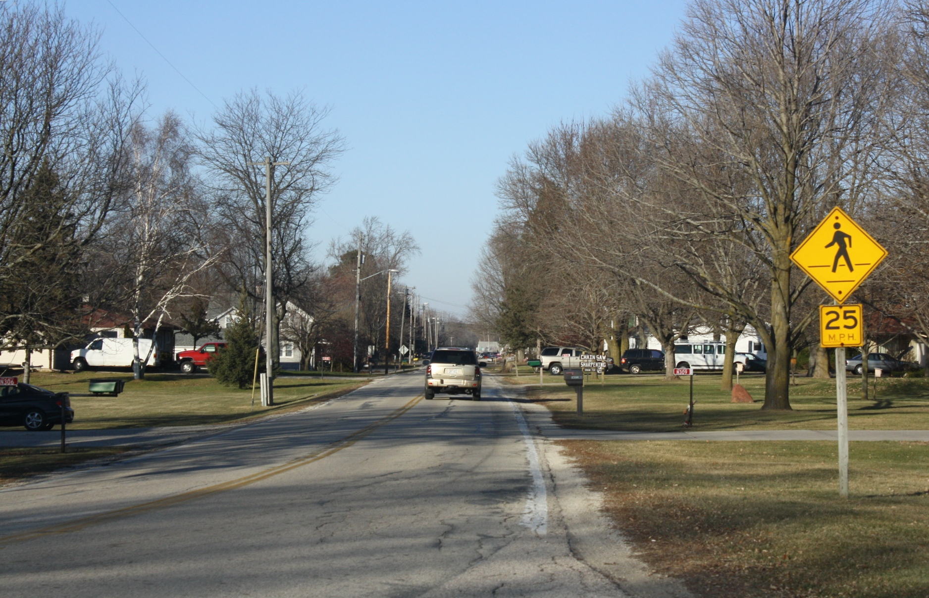 Looking north at New Fane, Wisconsin on the Kettle Moraine Scenic Drive.